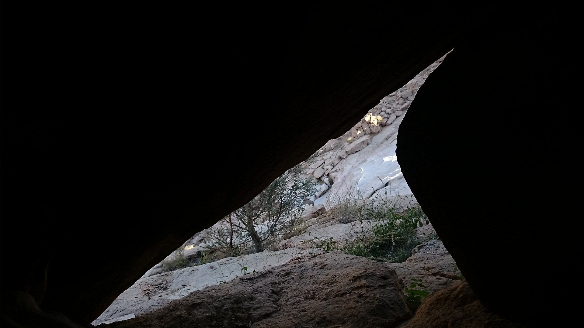 Khasha'a Aljawabirah (Makkah)